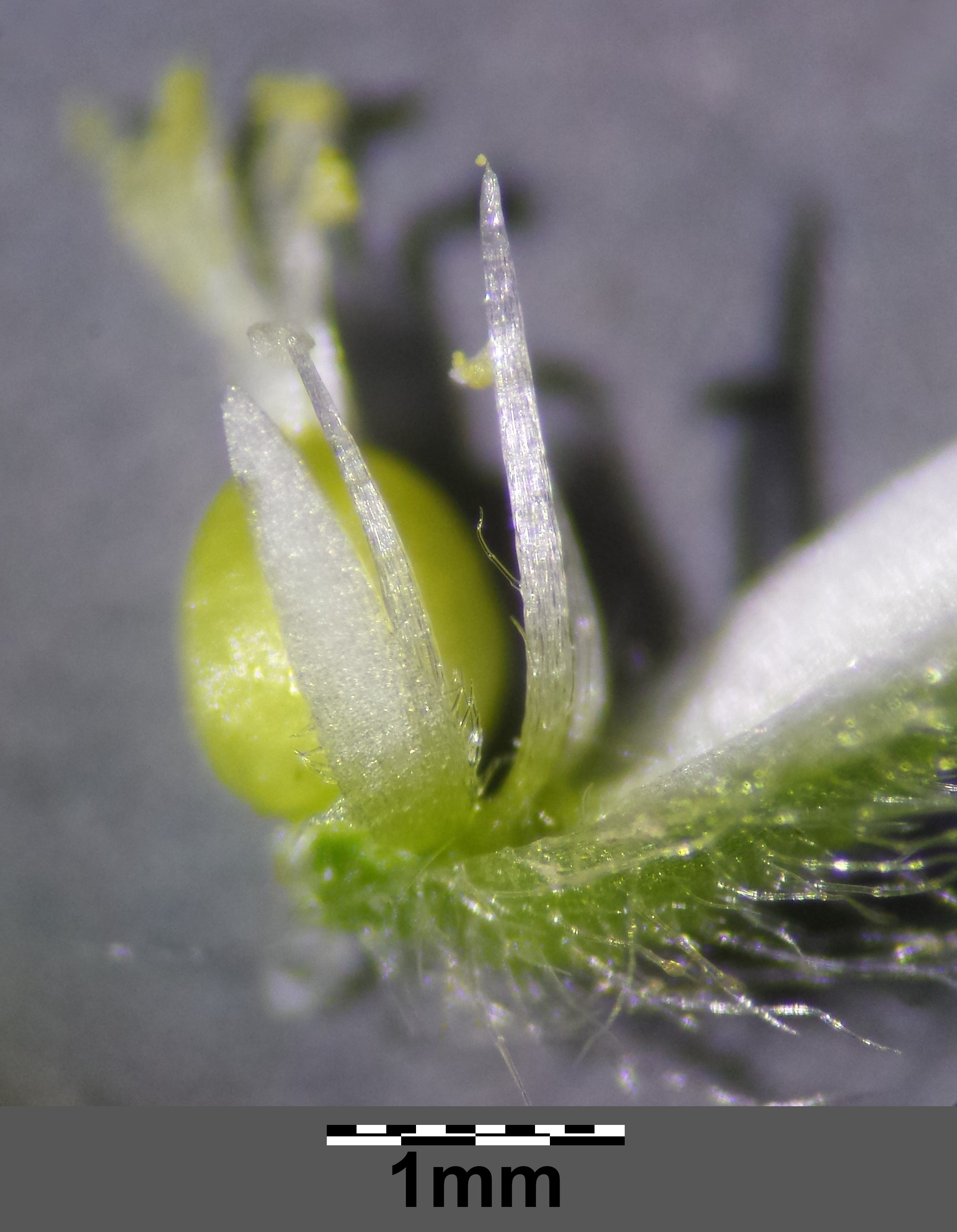 Flower, petal and stamen with hairs Taxonym: Cerastium brachypetalum s. str. ss Fischer et al. EfÖLS 2008 ISBN 978-3-85474-187-9 Location: Neue Donau, Vienna-Floridsdorf - ca. 160 m a.s.l. Habitat: stony, dry area